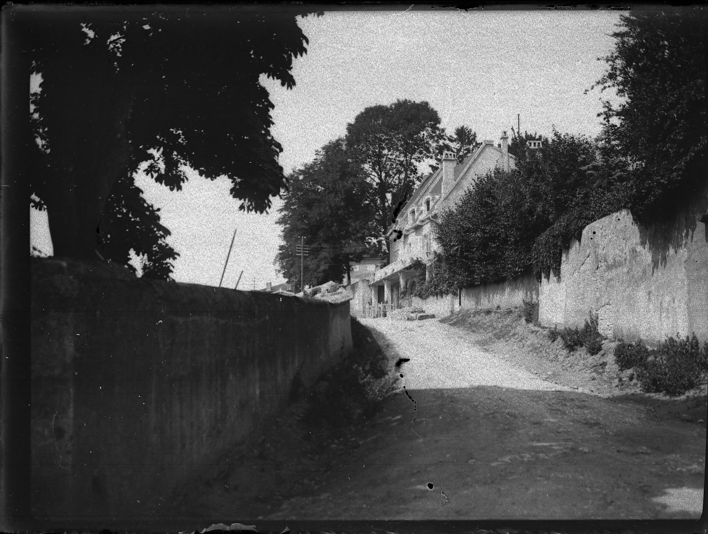 Photo prise par Antonin Daum (1864- 1930)